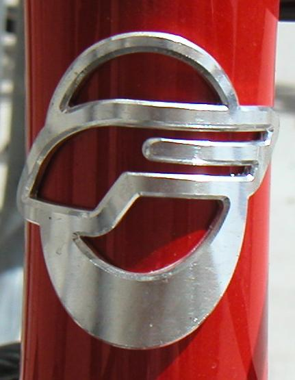 Taken by Andrew Dressel